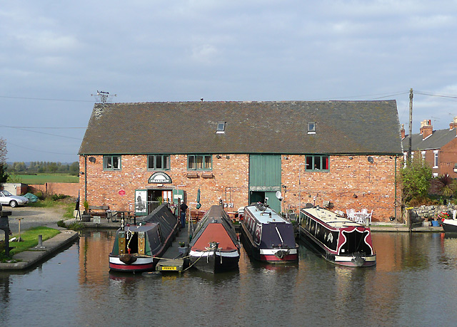 The Heritage Centre, Shardlow, Derbyshire. This old warehouse, built in the 1770s is leased from Mansfield Brewery who completely refurbished and equipped it at their own expense as a museum for the village. Shardlow was a busy river port before the canal was authorised in 1766, and construction started in that year under the supervision of James Brindley. The route from Derwent Mouth (one mile away) to the Bridgewater Canal near Manchester allowed passage via Runcorn to the River Mersey, and was fully open by 1777. The section through Shardlow was open and in operation by 1770.